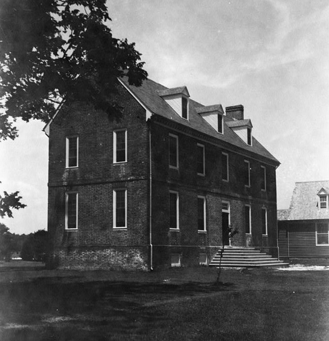 Little England, State Route 672 vicinity, Bena vicinity (Gloucester County, Virginia) cropped This file comes from the Historic American Buildings Survey (HABS), Historic American Engineering Record (HAER) or Historic American Landscapes Survey (HALS). These are programs of the National Park Service established for the purpose of documenting historic places. Records consist of measured drawings, archival photographs, and written reports. When reusing please credit: Library of Congress, Prints & Photographs Division, VA,37-GLOPO,1-1 This tag does not indicate the copyright status of the attached work. A normal copyright tag is still required. See Commons:Licensing for more information. This work is in the public domain in the United States because it is a work prepared by an officer or employee of the United States Government as part of that person’s official duties under the terms of Title 17, Chapter 1, Section 105 of the US Code. See Copyright. Note: This only applies to original works of the Federal Government and not to the work of any individual U.S. state, territory, commonwealth, county, municipality, or any other subdivision. This template also does not apply to postage stamp designs published by the United States Postal Service since 1978. (See § 313.6(C)(1) of Compendium of U.S. Copyright Office Practices). It also does not apply to certain US coins; see The US Mint Terms of Use. This file has been identified as being free of known restrictions under copyright law, including all related and neighboring rights.